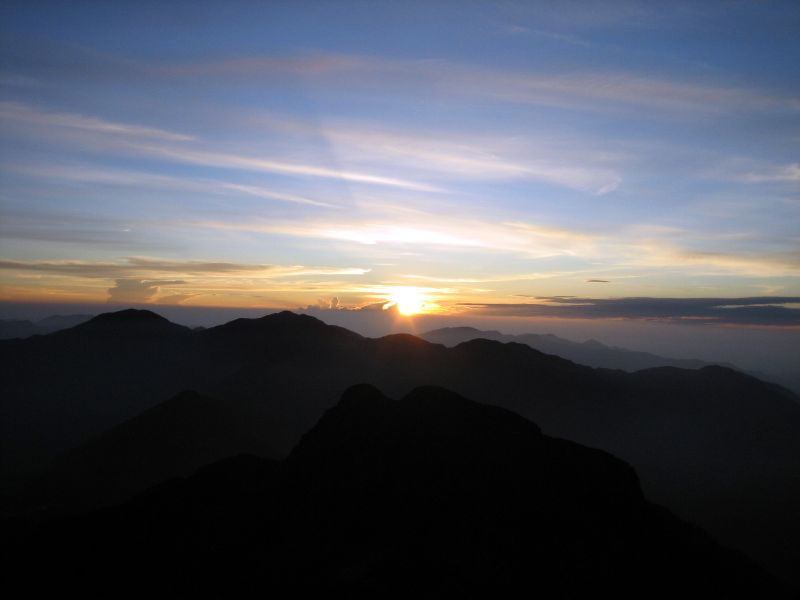 Sunrise at Yu Shan 玉山之日出. We were really lucky with the weather on this summit trek, and this is the first of my Chinese mountain sunrises that actually amounted to anything. The Chinese go crazy over these.